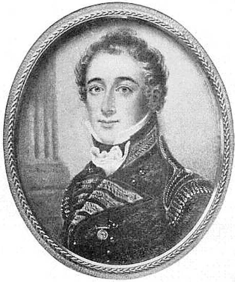 One of two portraits of Isaac Brock included in the 1908 book "The Story of Isaac Brock" by Walter R. Nursey.